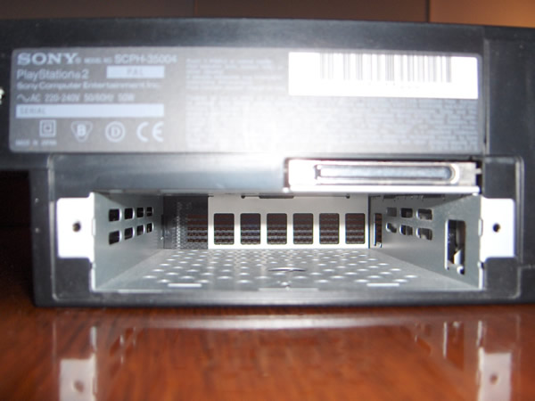 PlayStation 2 Expansion Bay, zelfgemaakte foto, GFDL